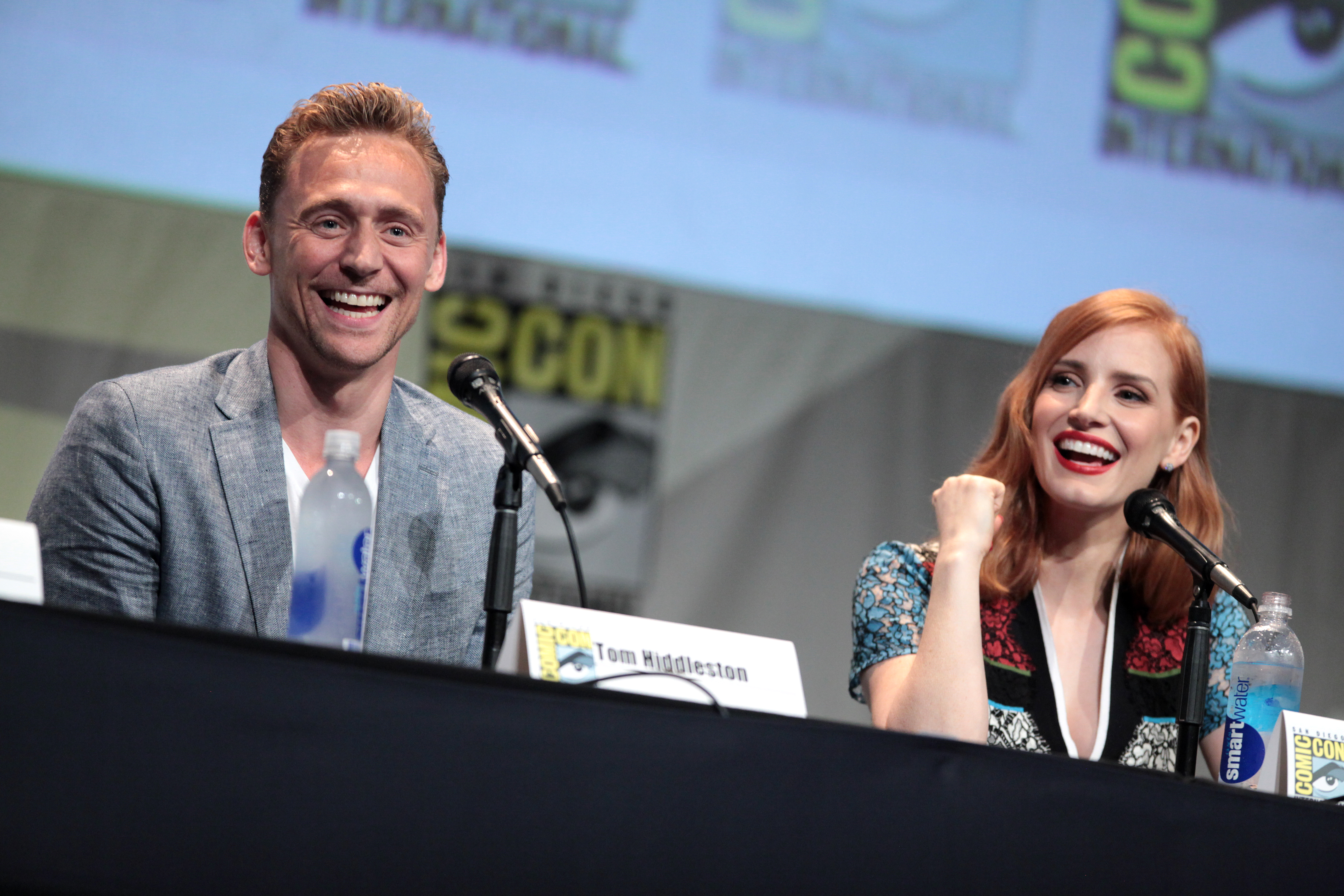 Tom Hiddleston and Jessica Chastain speaking at the 2015 San Diego Comic Con International, for "Crimson Peak", at the San Diego Convention Center in San Diego, California.